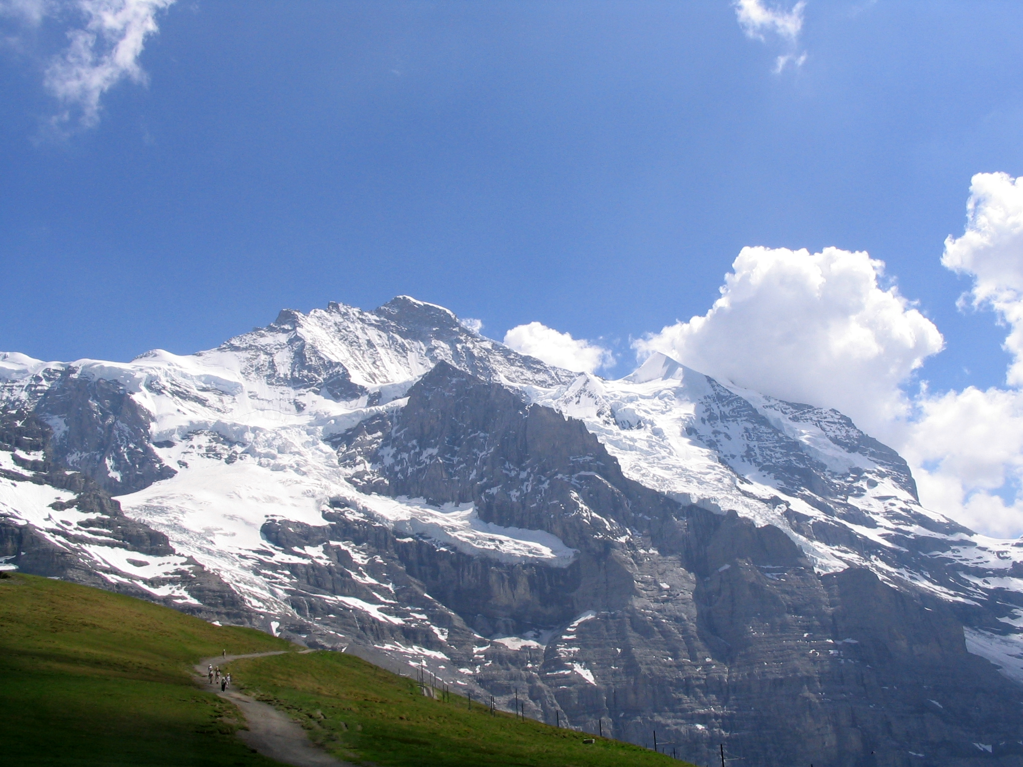 Jungfrau (4.158 m, Bernese Alps, North side), view from Kleine Scheidegg.